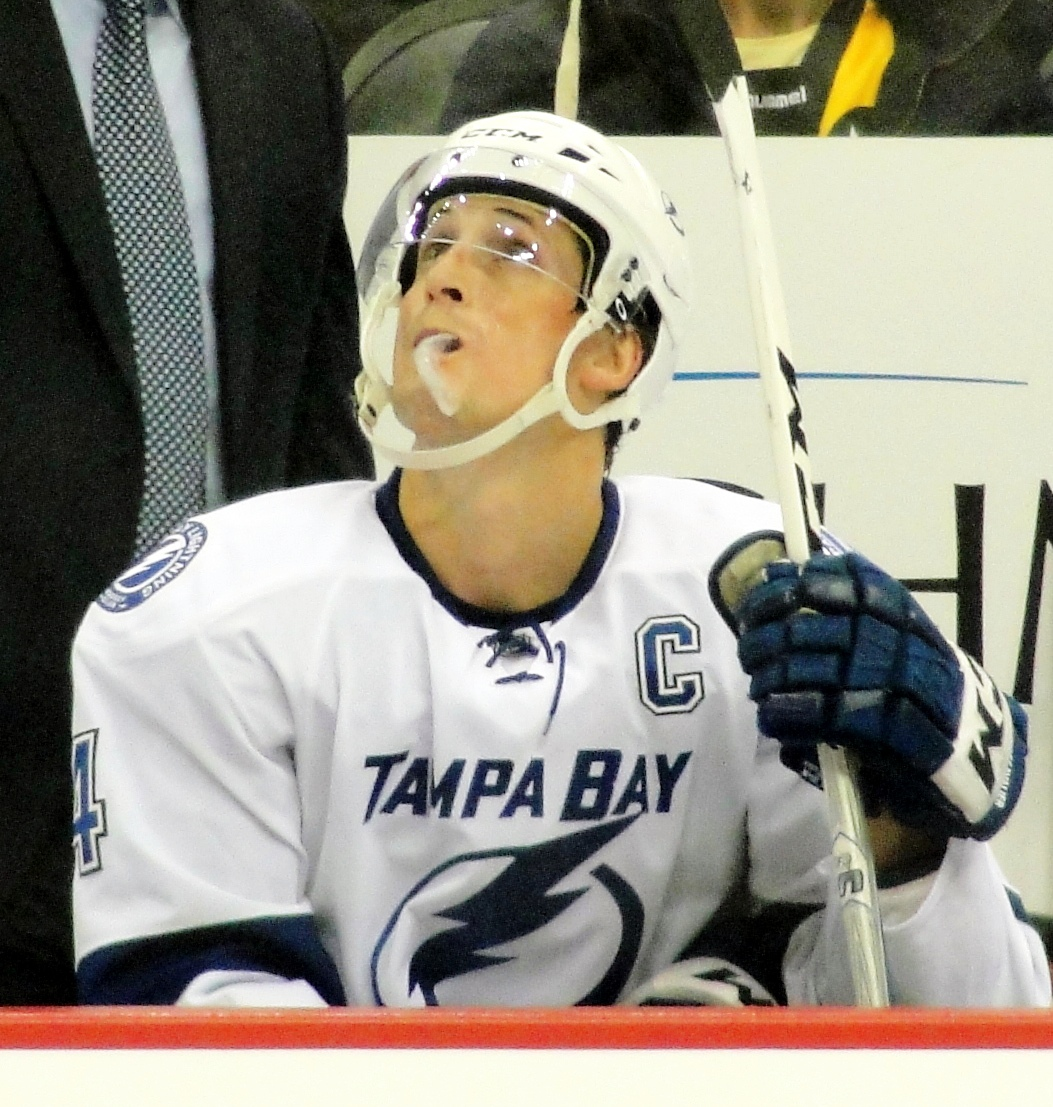 Vincent Lecavalier of the Tampa Bay Lightning during a February 12, 2012 game against the Pittsburgh Penguins at Consol Energy Center in Pittsburgh, PA.